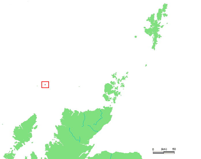 Location of North Rona, UK